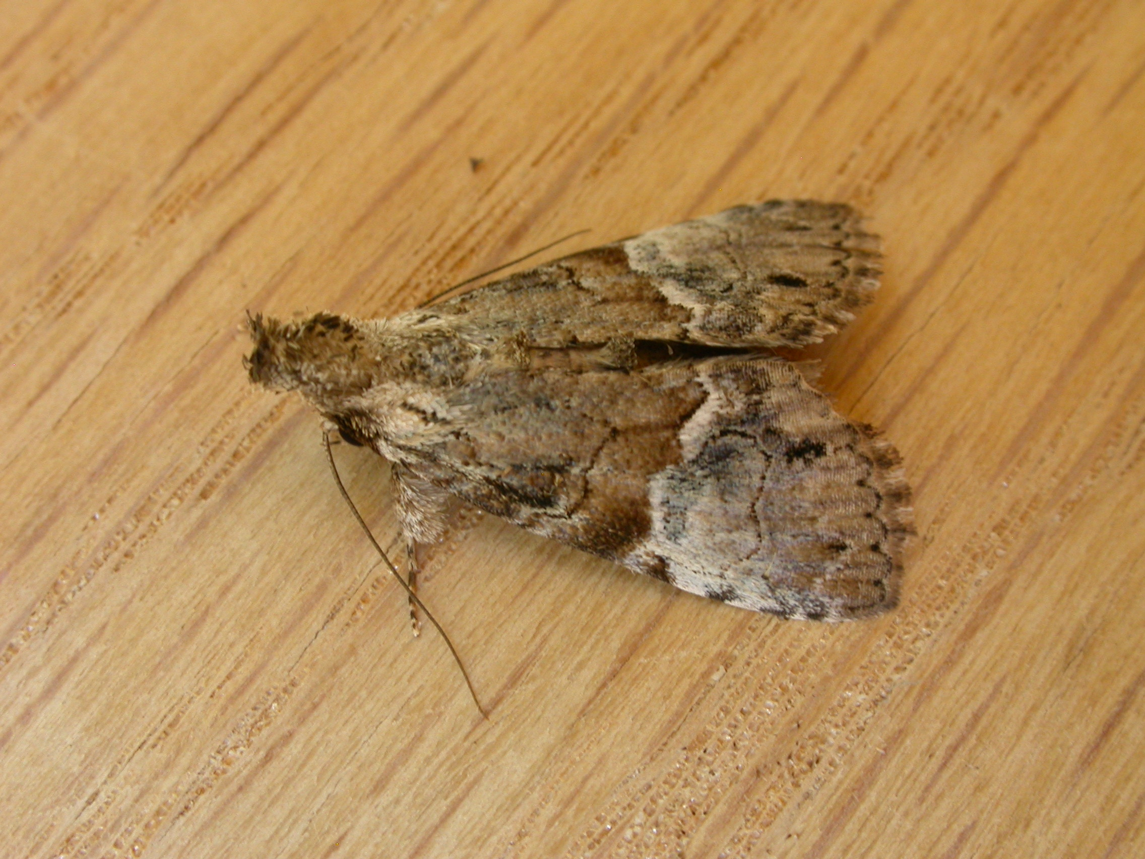 Alophosoma emmelopis (Turner, 1929), to MV light, Blackheath, NSW, 13/14 January 2009